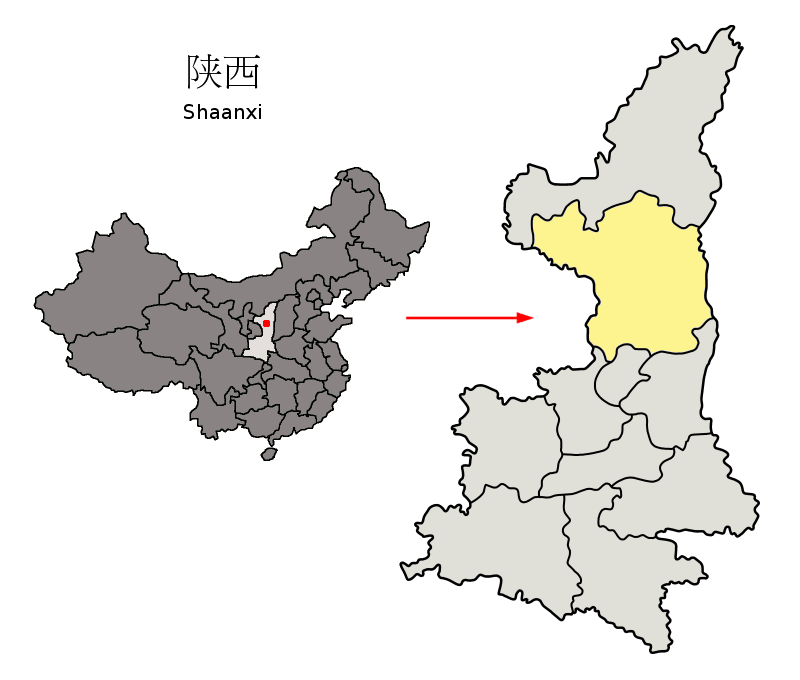 Location of Yan'an Prefecture (yellow) within Shaanxi Province of China Map drawn in december 2007 using various sources, mainly : Shaanxi Province administrative regions GIS data: 1:1M, County level, 1990 Shaanxi Counties map from